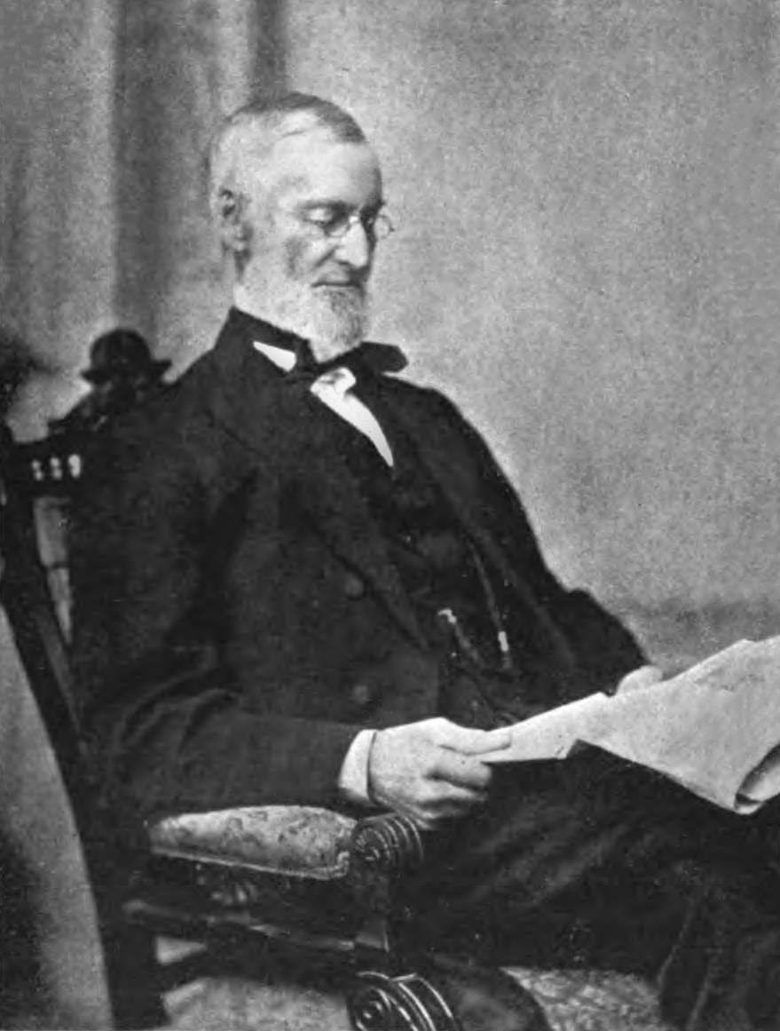 Henry R. Brinkerhoff, member of the United States House of Representatives from Huron County, Ohio.